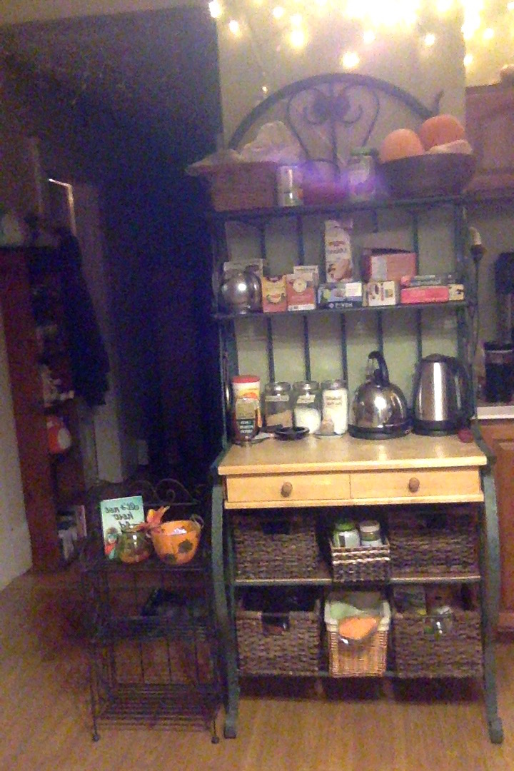 One is a short black shelf of wrought iron, foldable but not very lightweight. The other, taller piece is made of iron shelves and wooden counter and drawers.